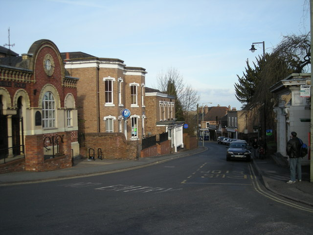 High St, Madeley